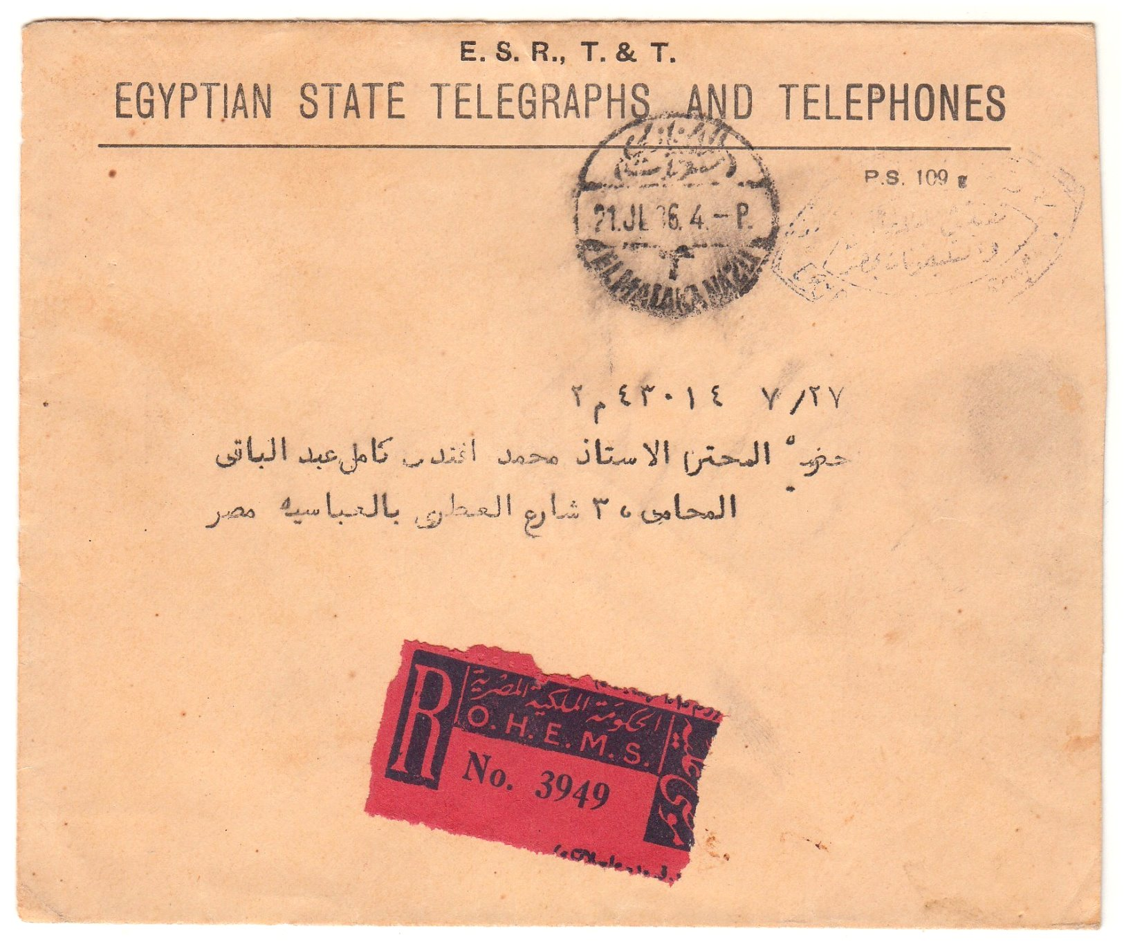 Egyptian State Telegraphs and Telephones registered cover 1936.